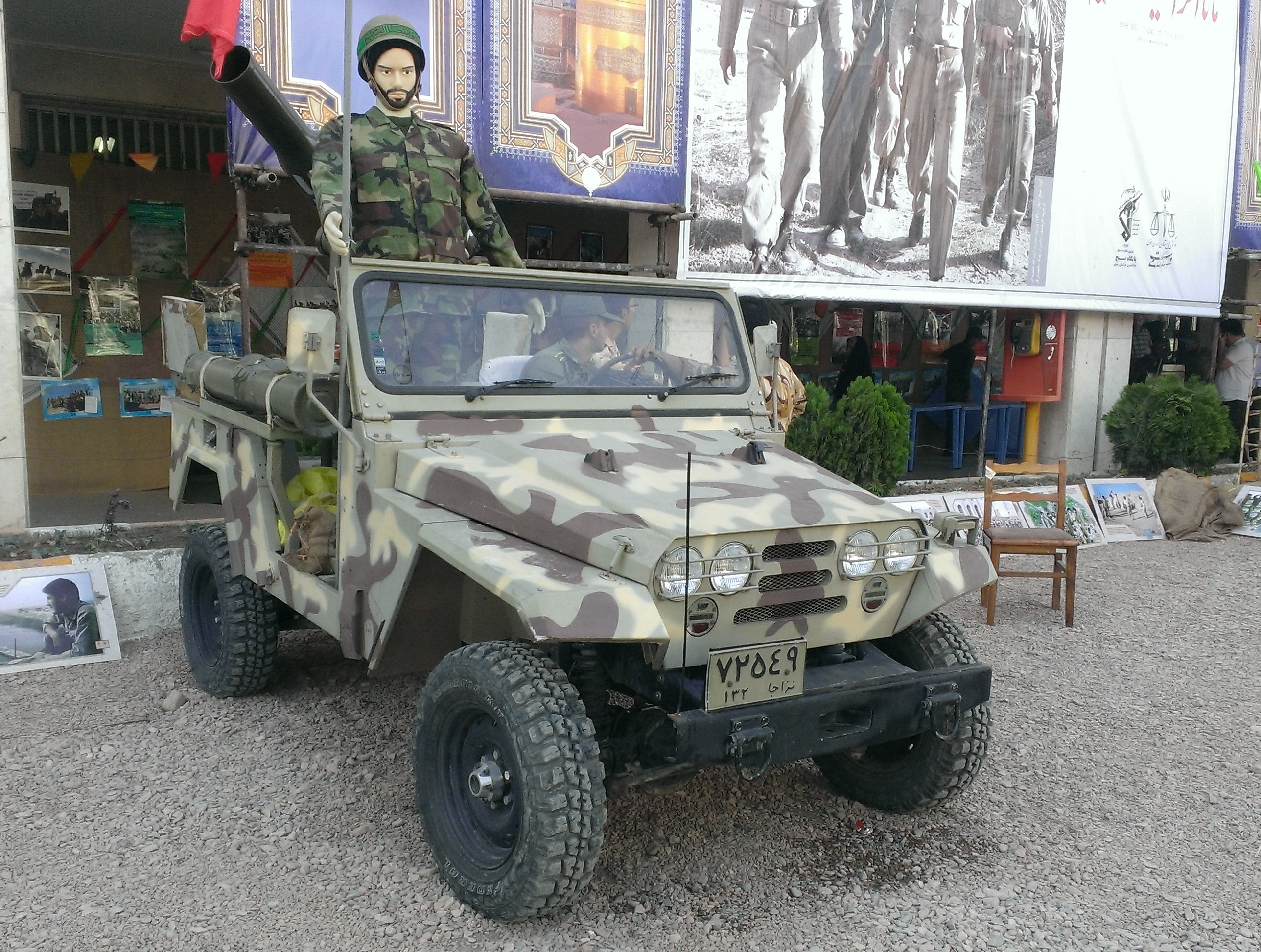 Safir 1/4-ton Tactical Vehicle